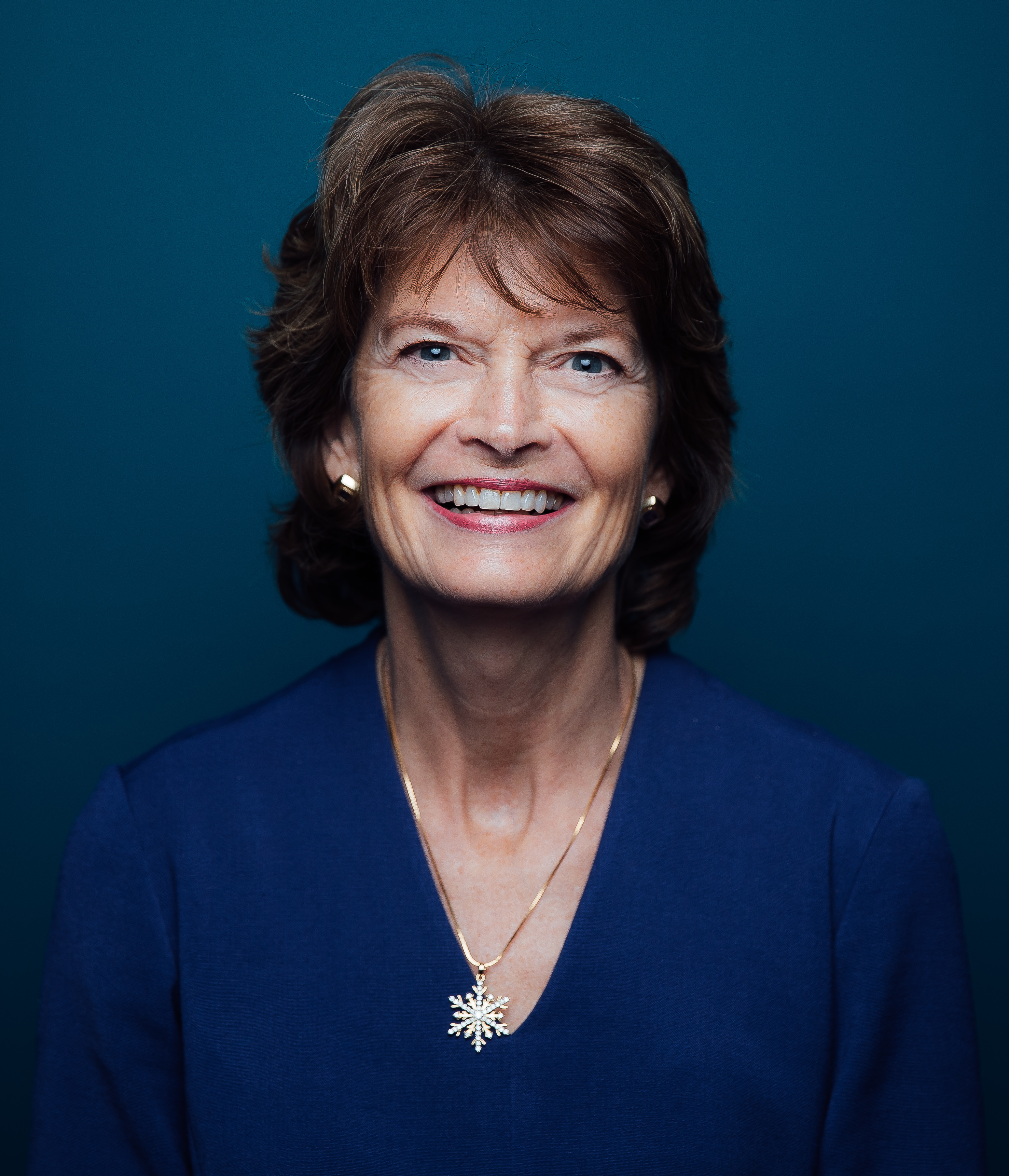 Lisa Murkowski official photo